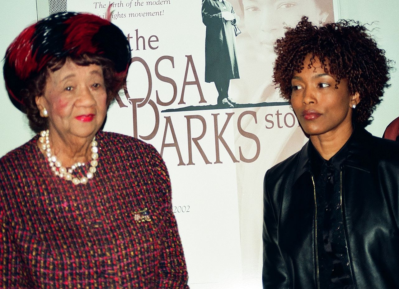 From Wash. D.C . 2002